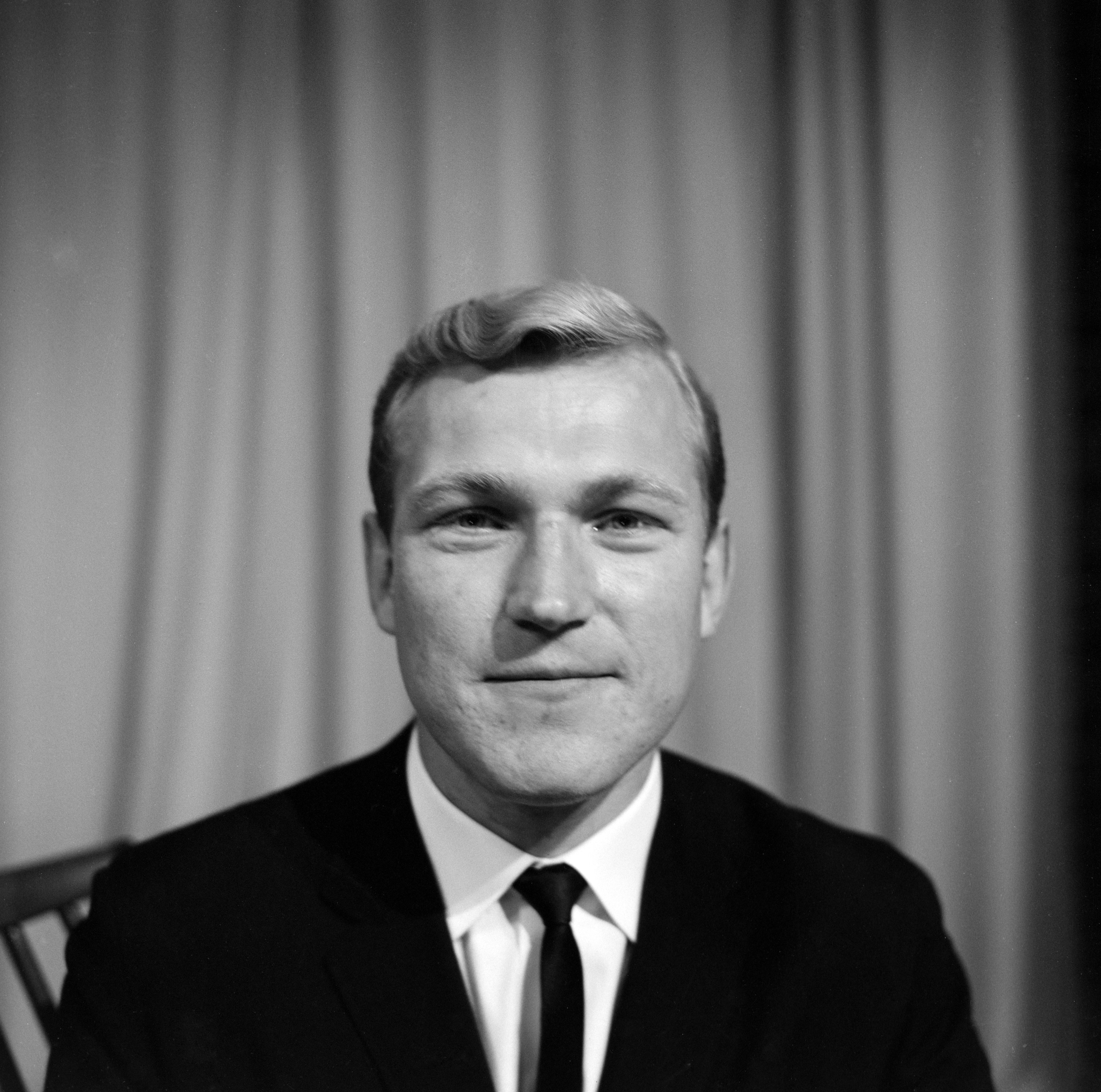 Tesvisio's journalist Pasi Rutanen.